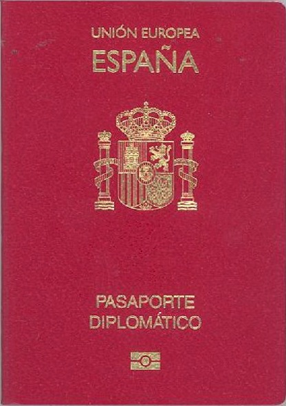 diplomatic passport of Spain